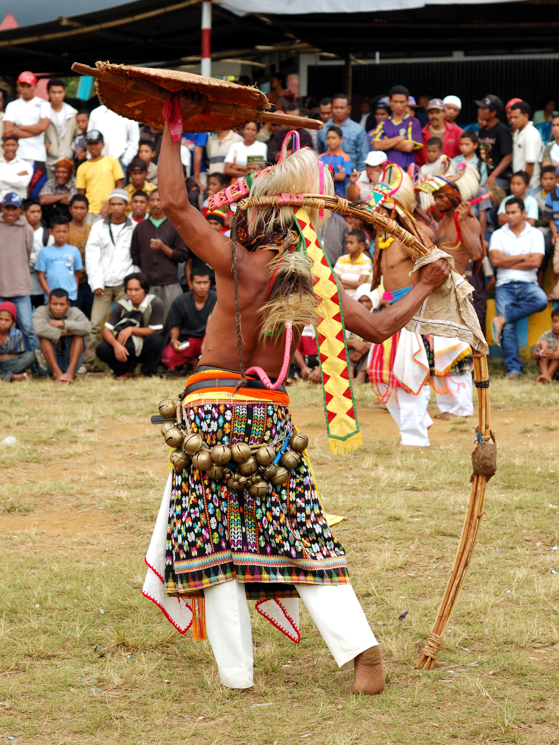 Caci dancer holding a shield (Nggiling), a bow (Tereng or Agang, Ruteng, Flores, Indonesia, 2007